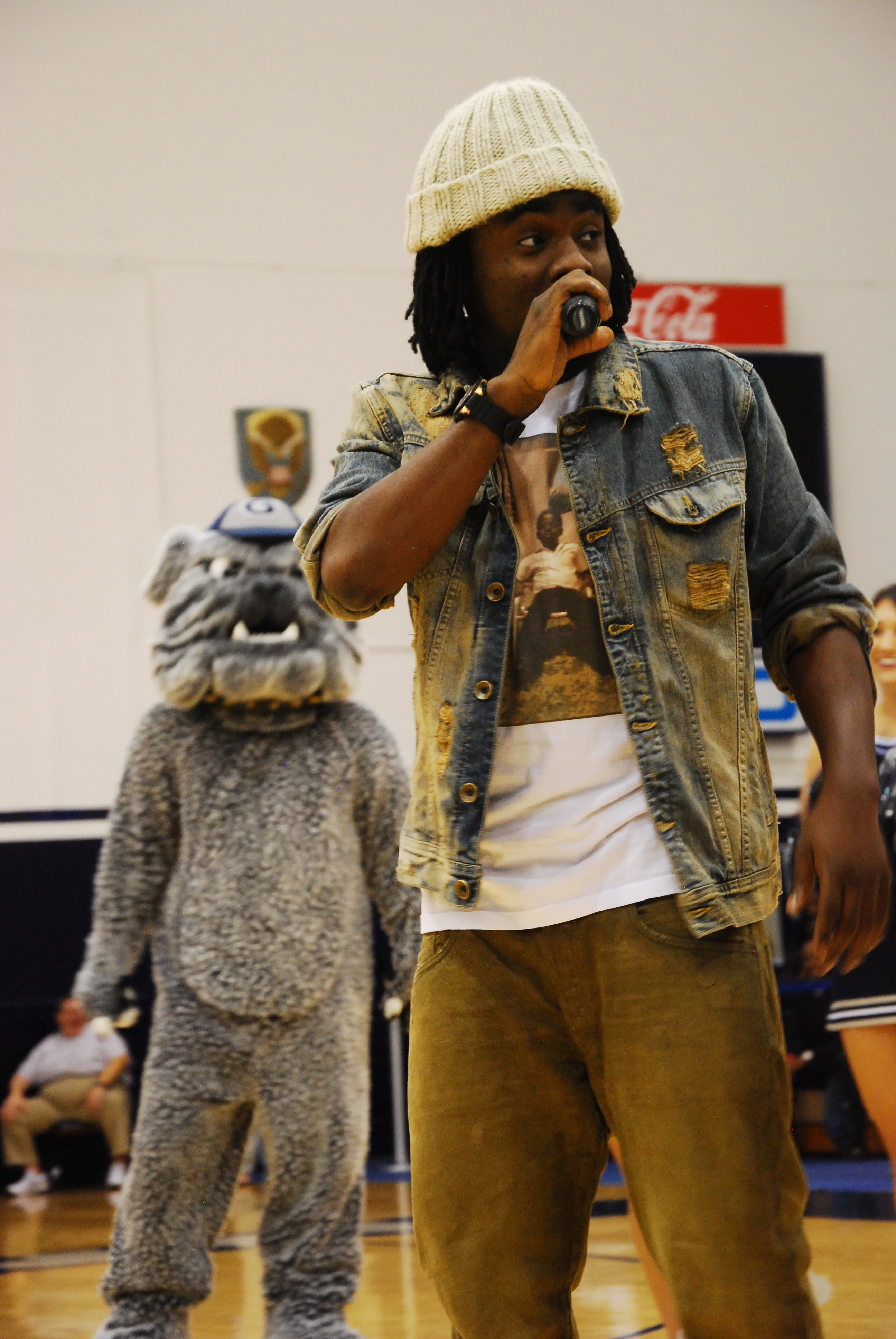 Wale performing at Georgetown's Midnight Madness